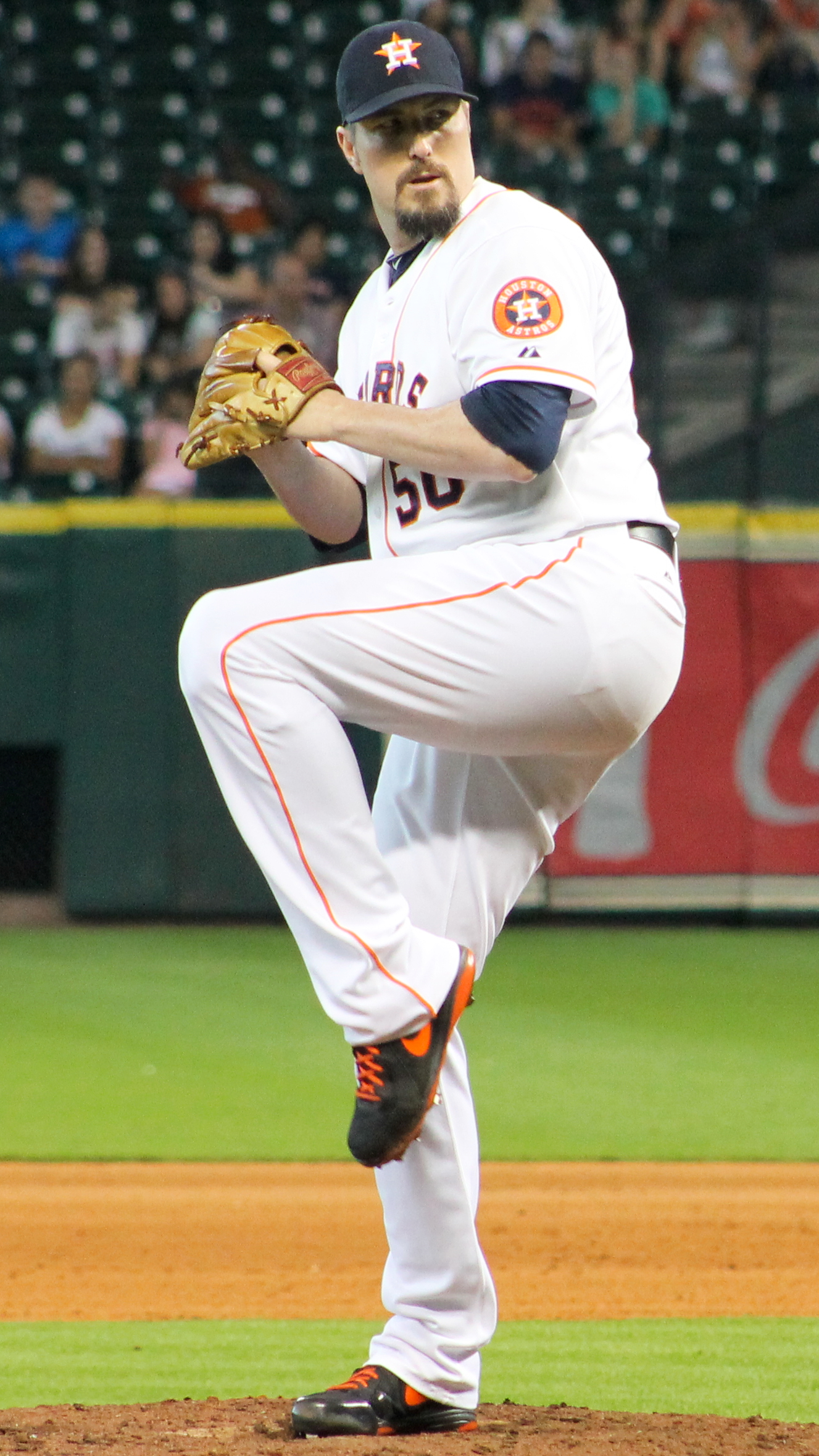 Major League Baseball pitcher Chad Qualls at Minute Maid Park in July 2014.